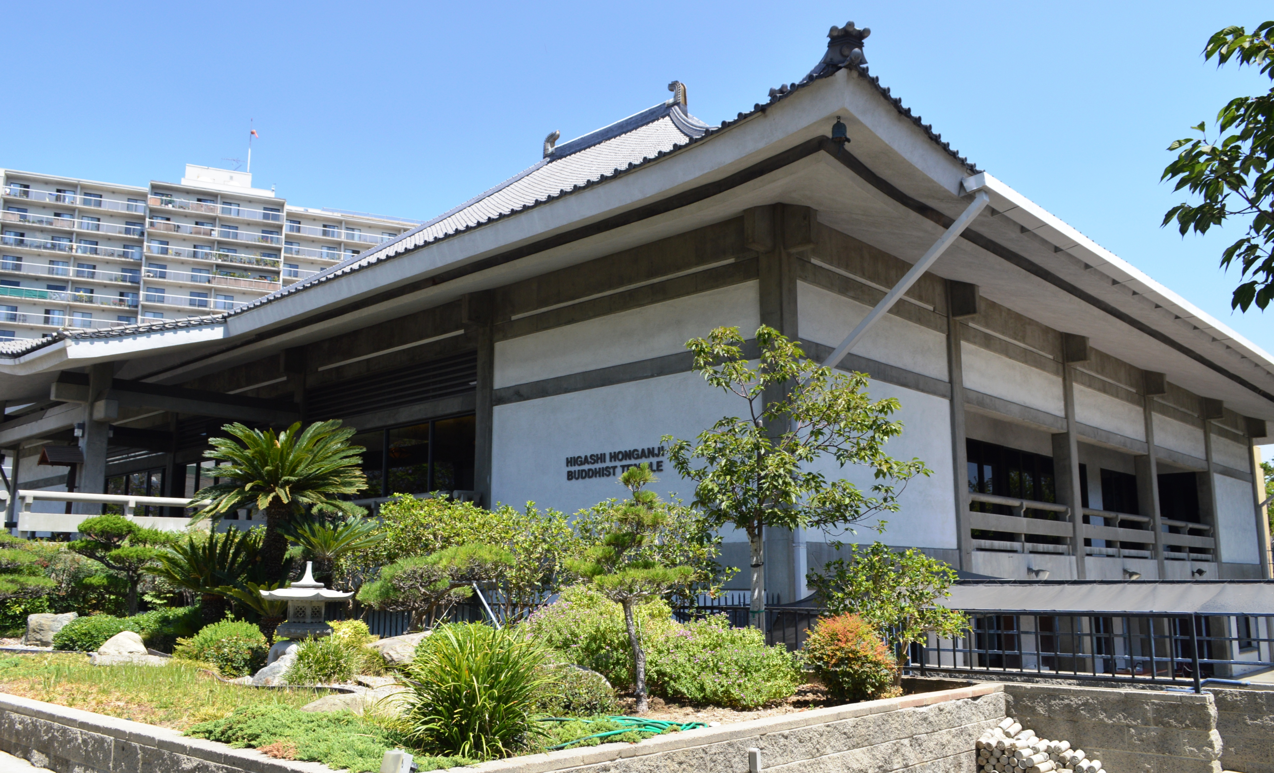 Higashi Honganji Buddhist Temple (Los Angeles branch), with Little Tokyo Towers apartments in the background - Little Tokyo, Los Angeles.